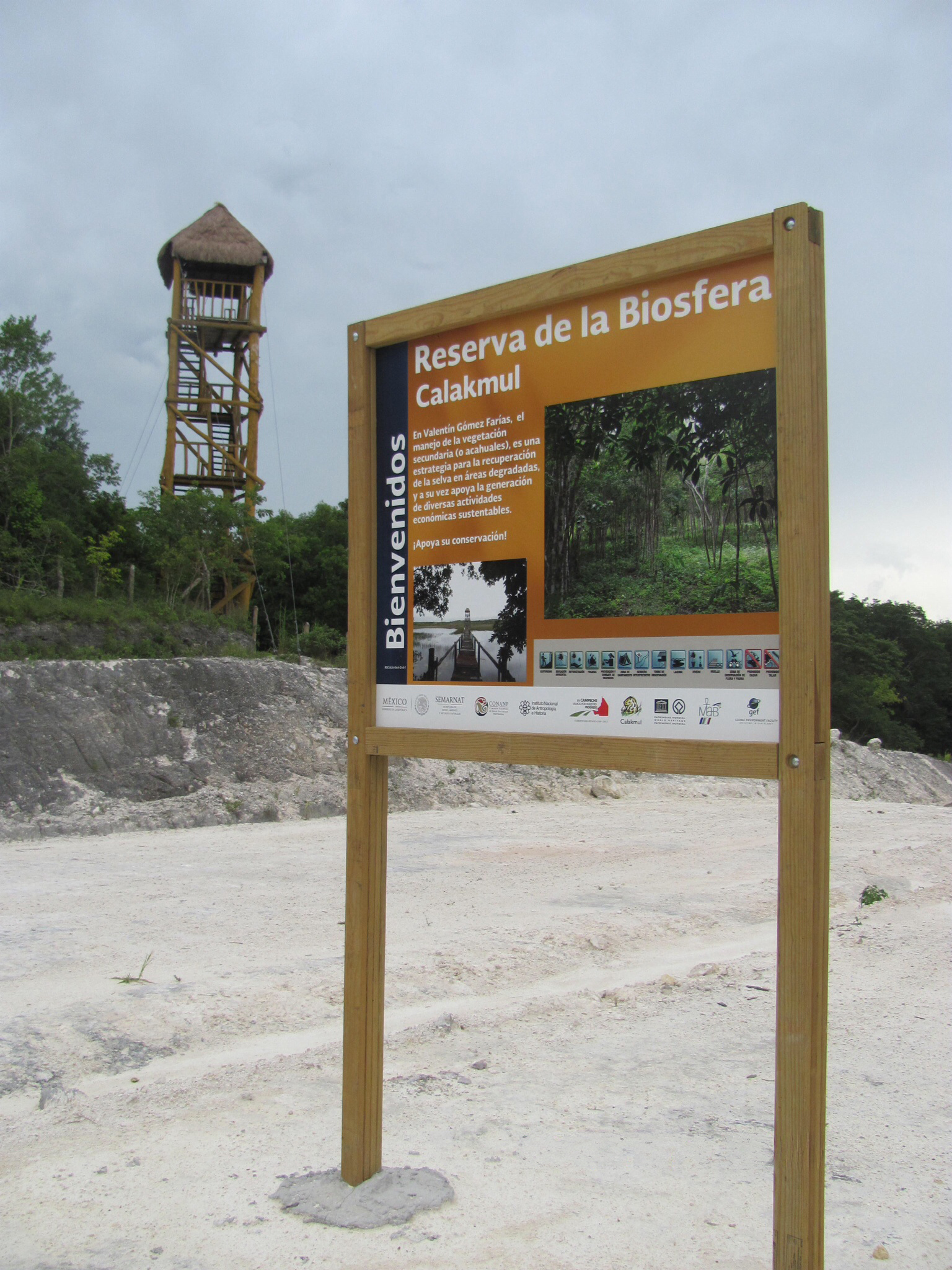 Valentin Natural